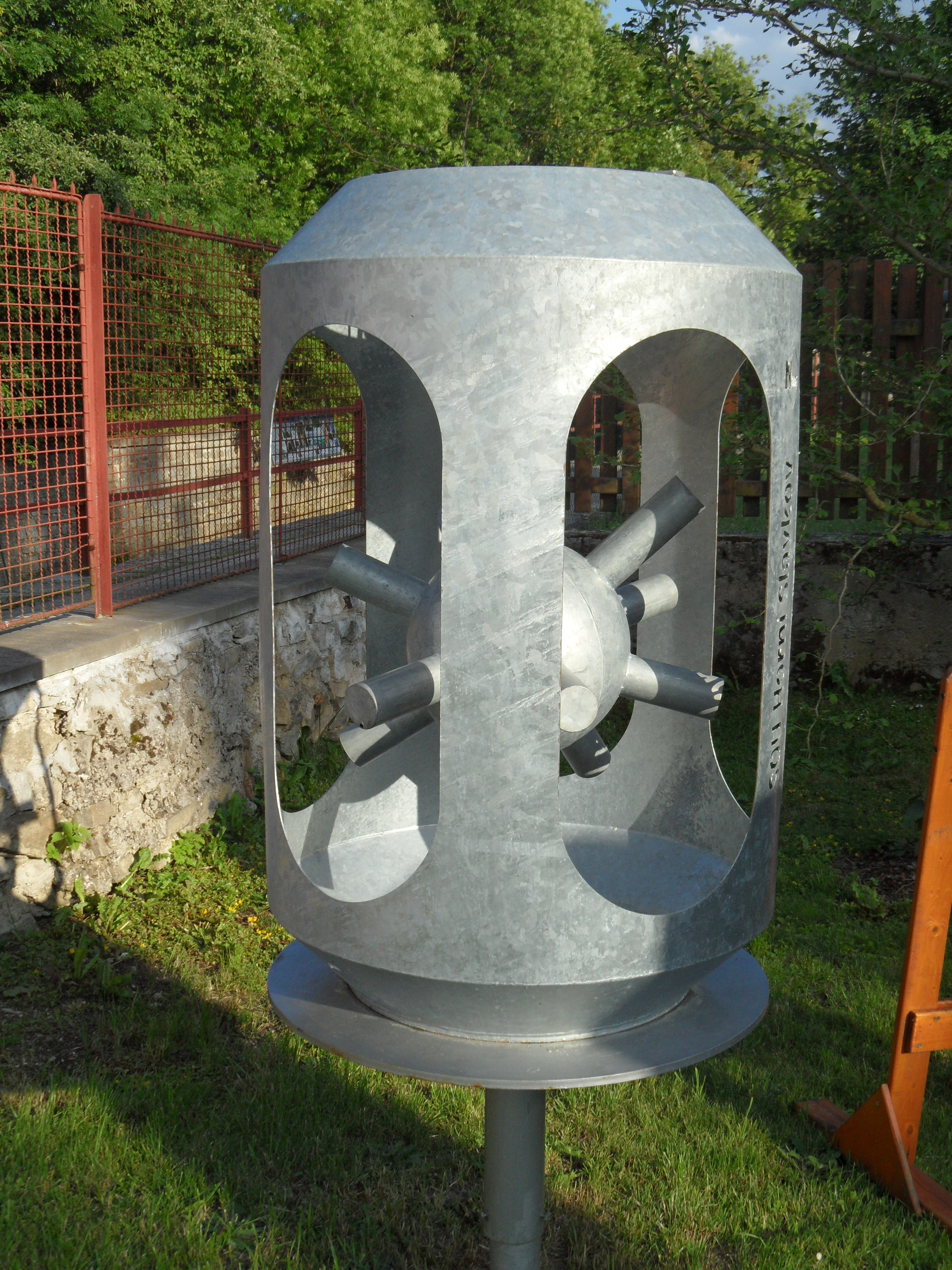 Pelhřimov: Garden of the Museum of Zlaté české ručičky. The Largest "Ježek v kleci" (Hedgehog in the Cage). Pelhřimov District, the Czech Republic.